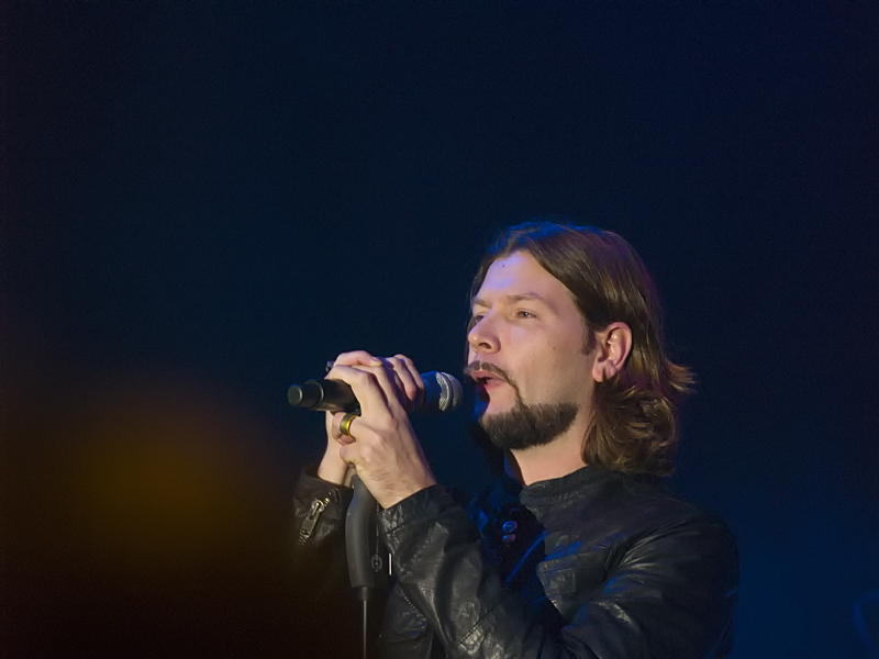 Rea Garvey on concert in Wiesbaden